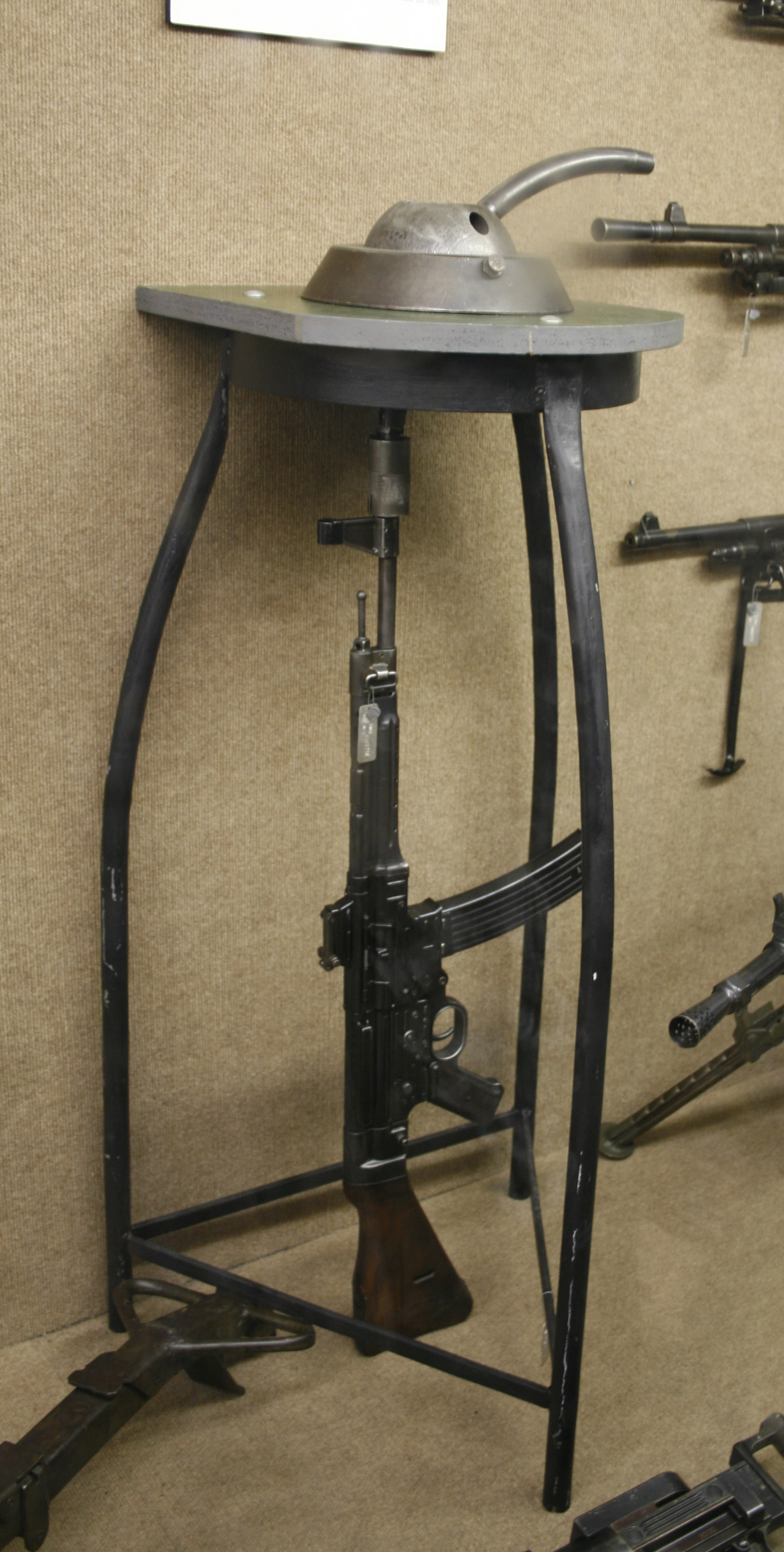 A Sturmgewehr 44 fitted with a Krummlauf taken at the Wehrtechnische Studiensammlung in Koblenz, Germany